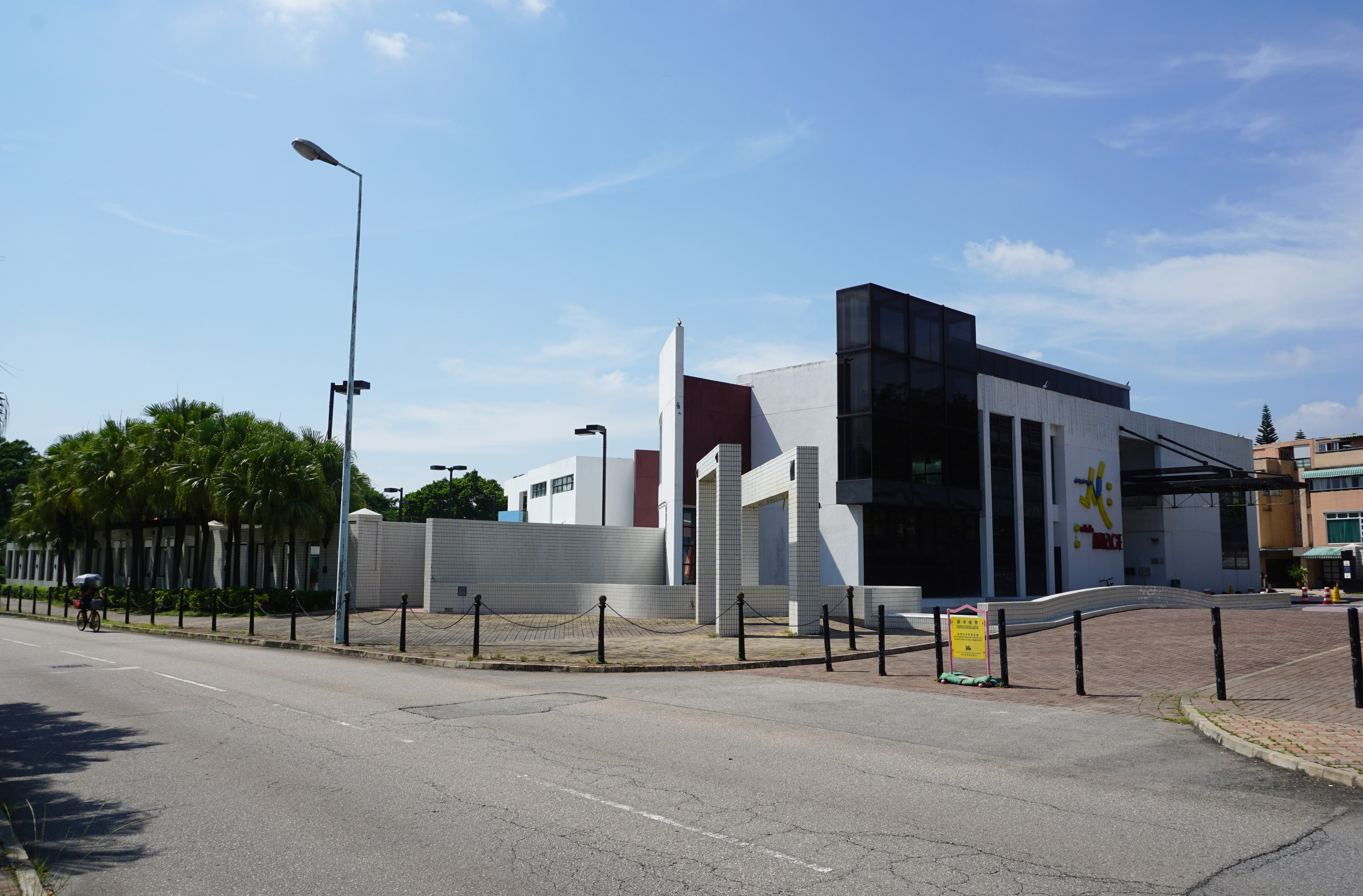 Club Mirace in Wo Shang Wai, Hong Kong.